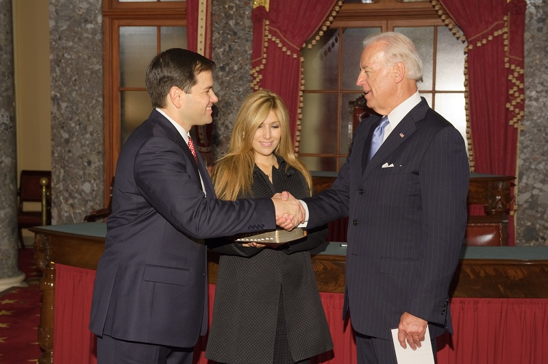 Marco and Jeanette Rubio just after he was sworn in as a U.S. Senator by Vice President Joseph Biden.